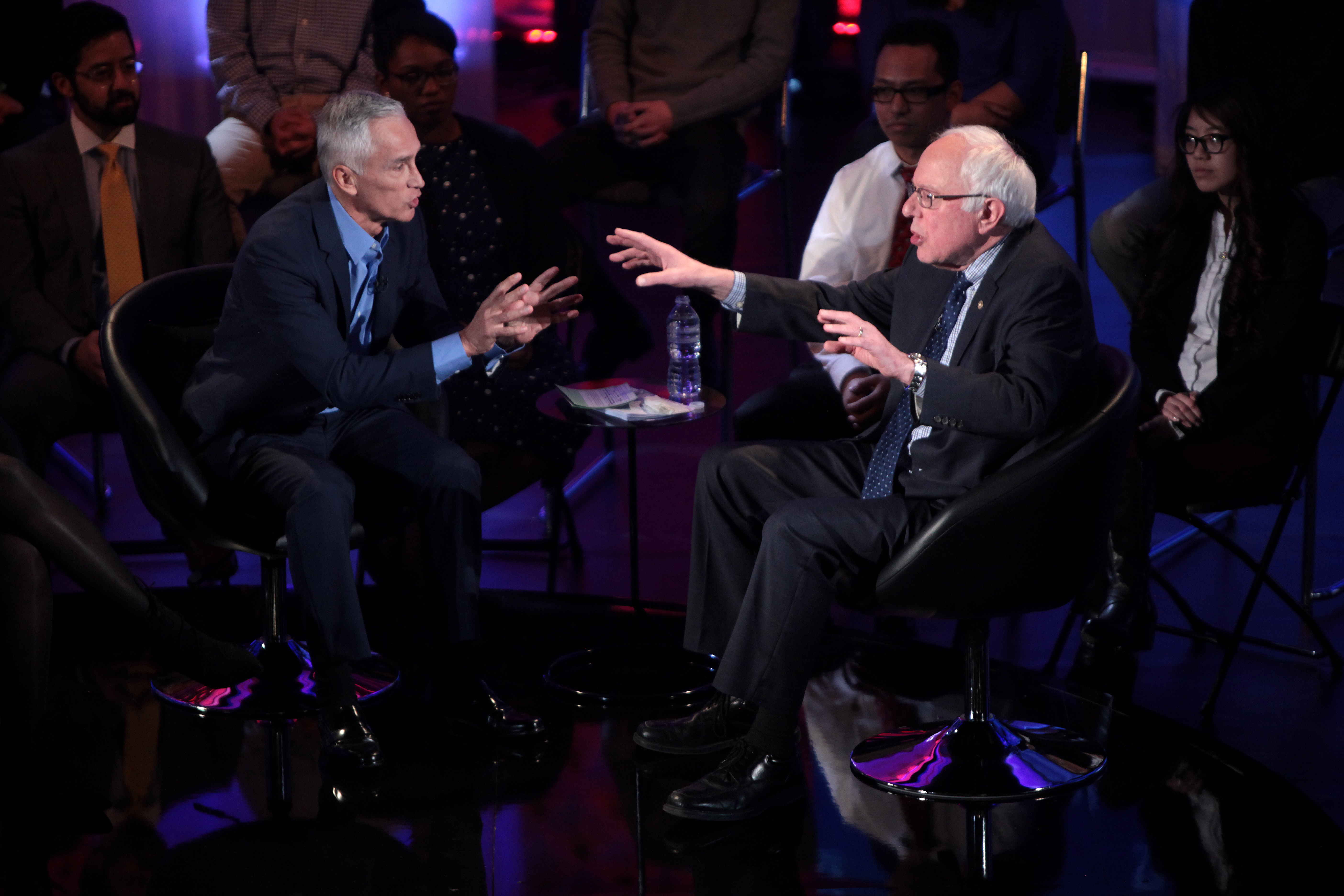 Jorge Ramos and U.S. Senator Bernie Sanders speaking at the Brown & Black Presidential Forum at Sheslow Auditorium at Drake University in Des Moines, Iowa.